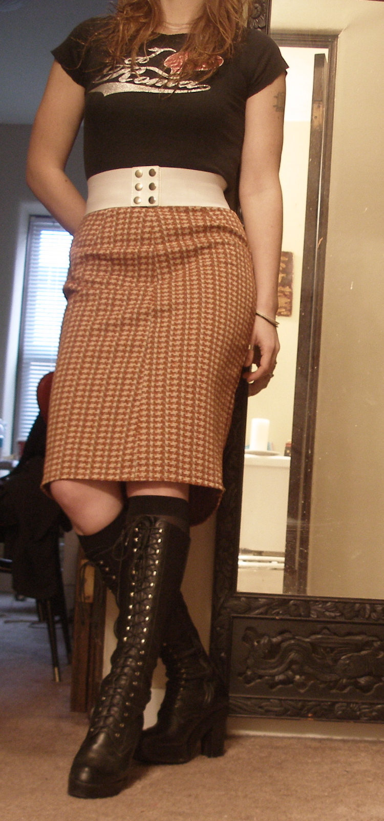 A woman wearing a pencil skirt design with lace-up boots and a wide belt.